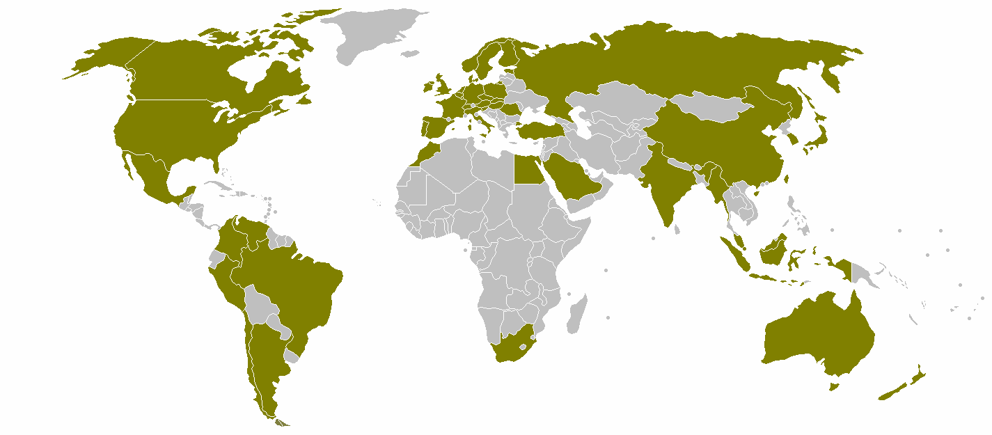 Global locations of Saint Gobain factories